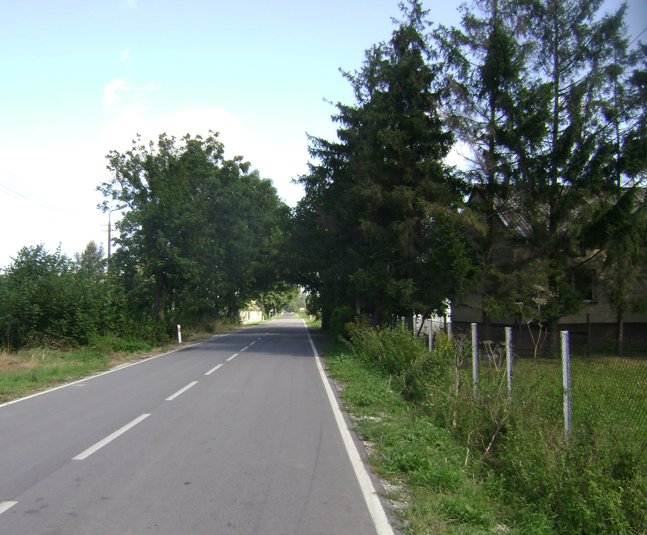 Voivodeship road DW868. Piaski.